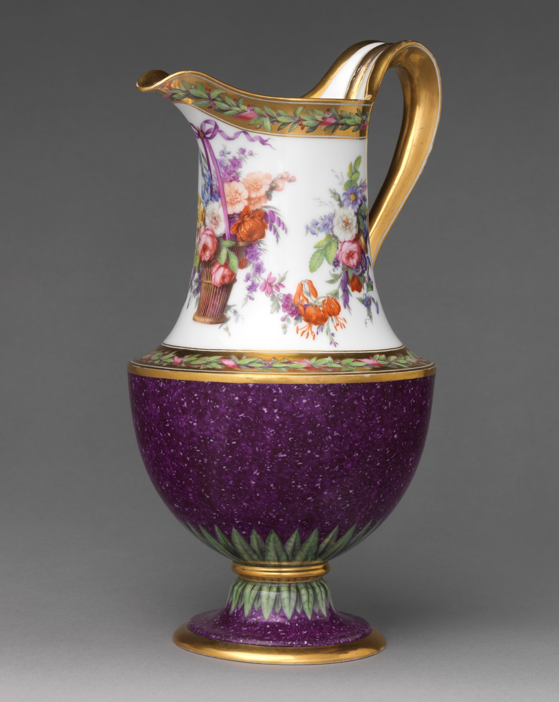 French, Sèvres; Ewer and basin; Ceramics-Porcelain